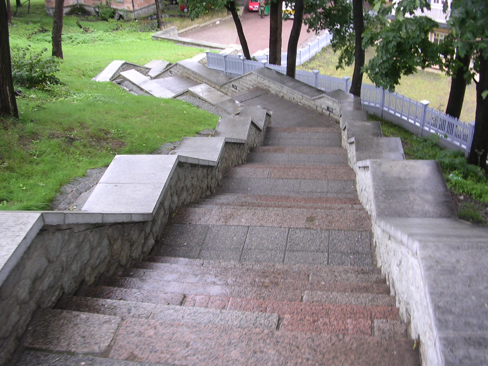 Stairways down to Kadriorg